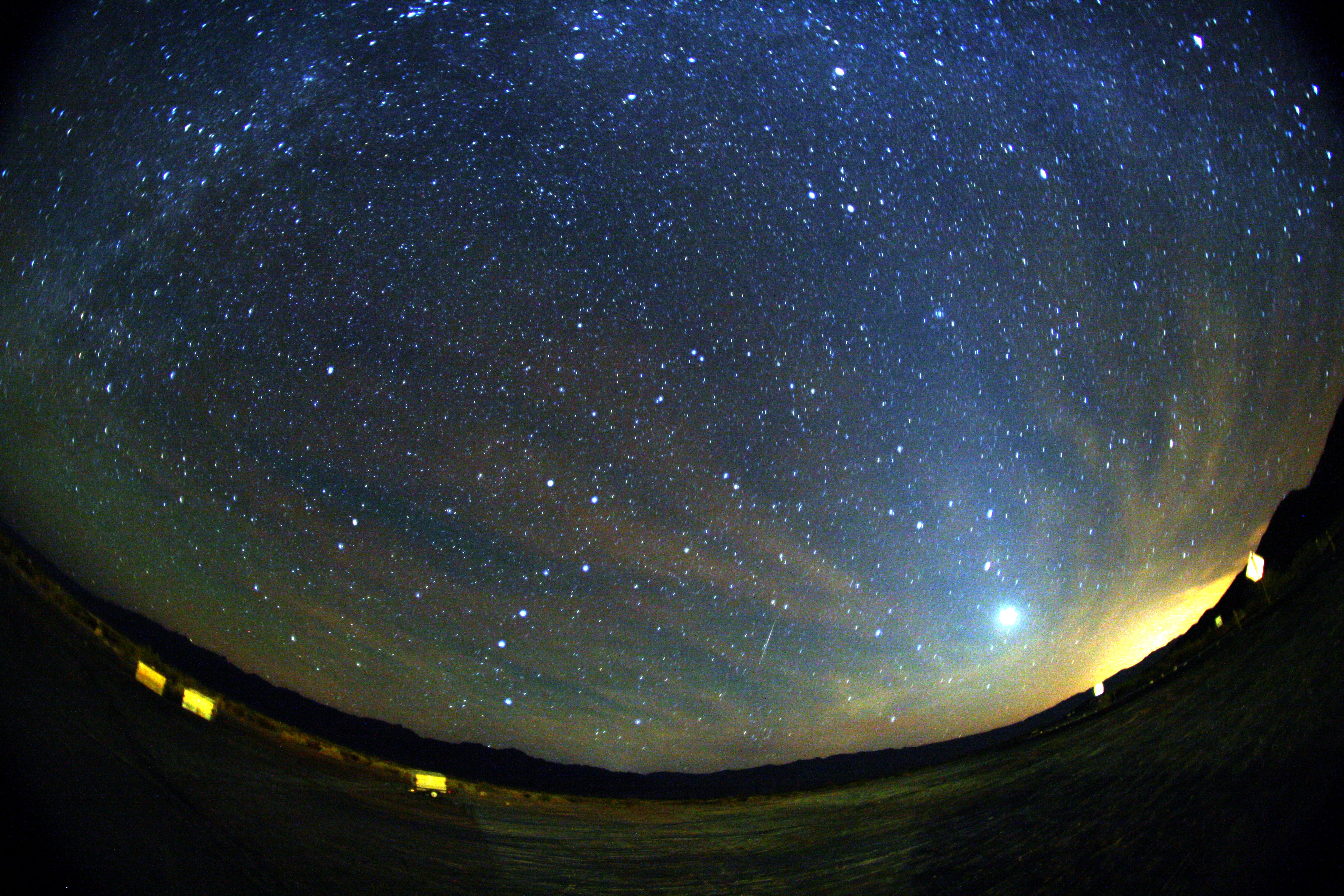 A green and red Orionid meteor striking the sky below Milky Way and to the right of Venus. Zodiacal light is also seen at the image The trail appears slightly curved due to edge distortion in the lens